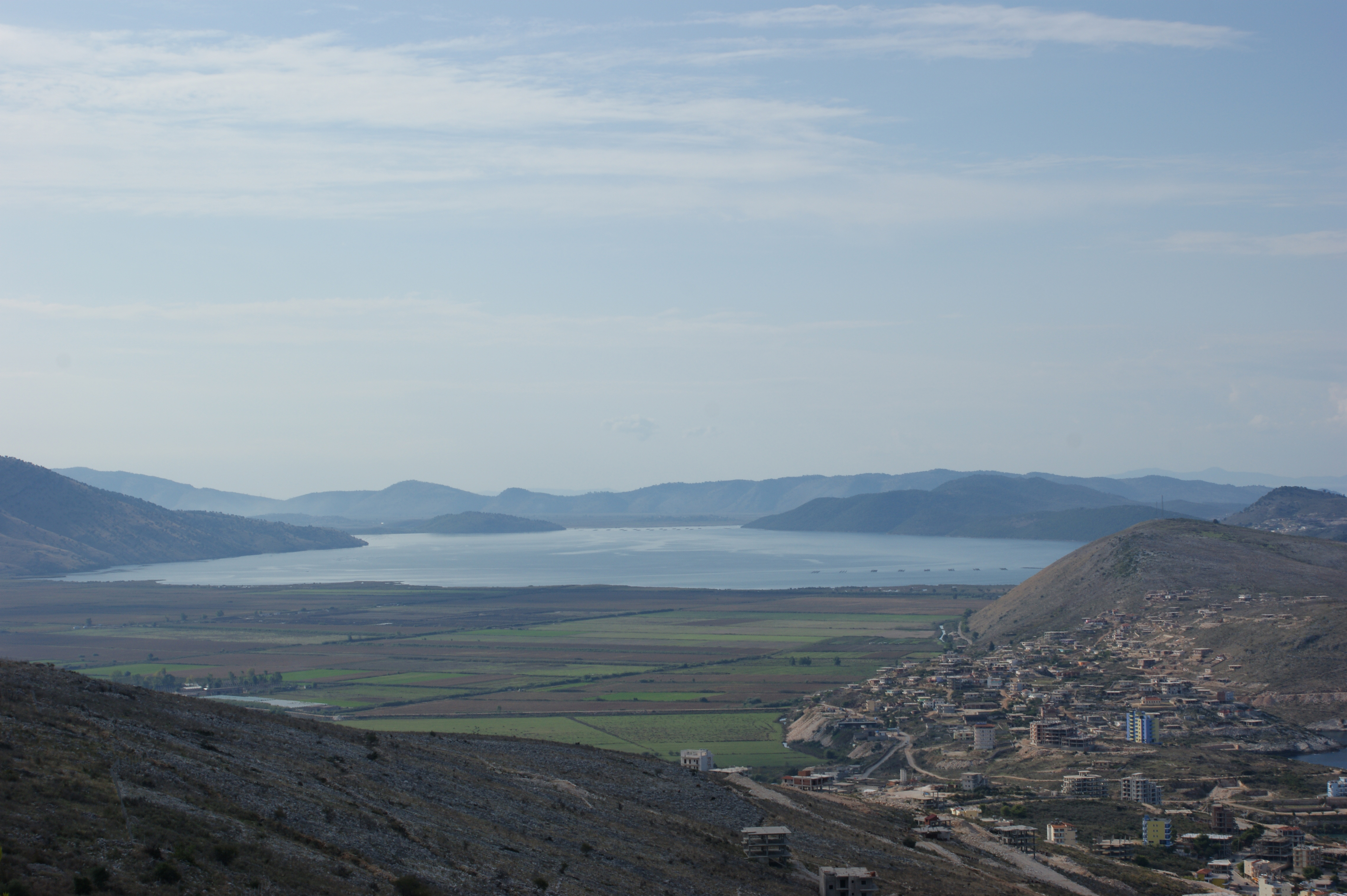 Looking south from Lekursi Castle close to Saranda (Albania) over Lake Butrint